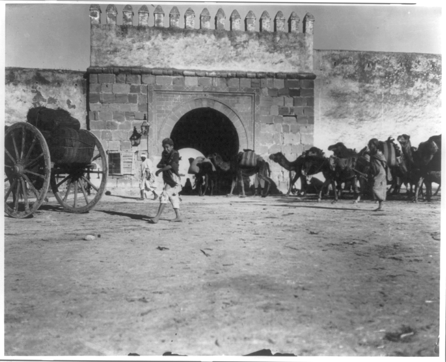 Title: Tunis - Bab el-allouch, the Susa Gate Physical description: 1 photographic print : gelatin silver ; 8 x 10 in. or smaller. Notes: Gift; Colorado Historical Society; 1949.; Forms part of: Jackson, William Henry, 1843-1943. World's Transportation Commission photograph collection (Library of Congress).; Similar to lantern slide W7-49.; Published as halftone in Harper's Weekly, 1895, p. 180.; Photographic print made by LC from Jackson's vintage film negative.